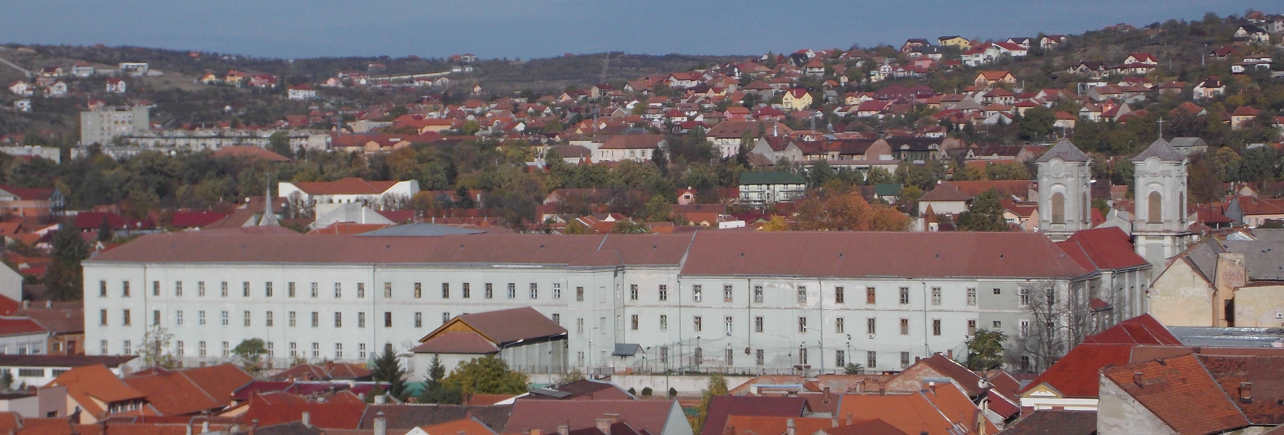 "Mihai Eminescu" High School (rear view from afar) - Oradea